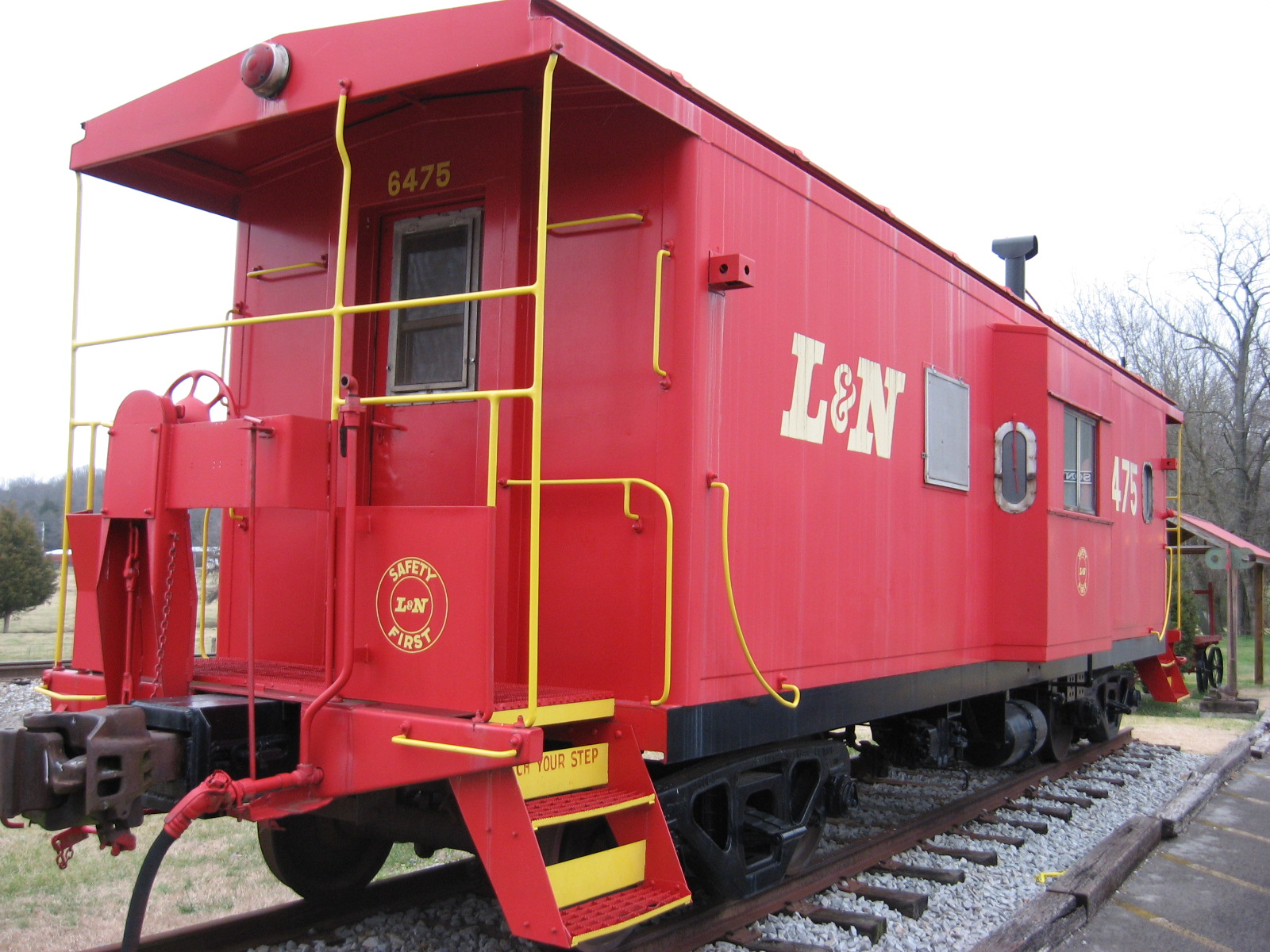 Picture of the caboose located near Town Hall in Thompson's Station, Tennessee.